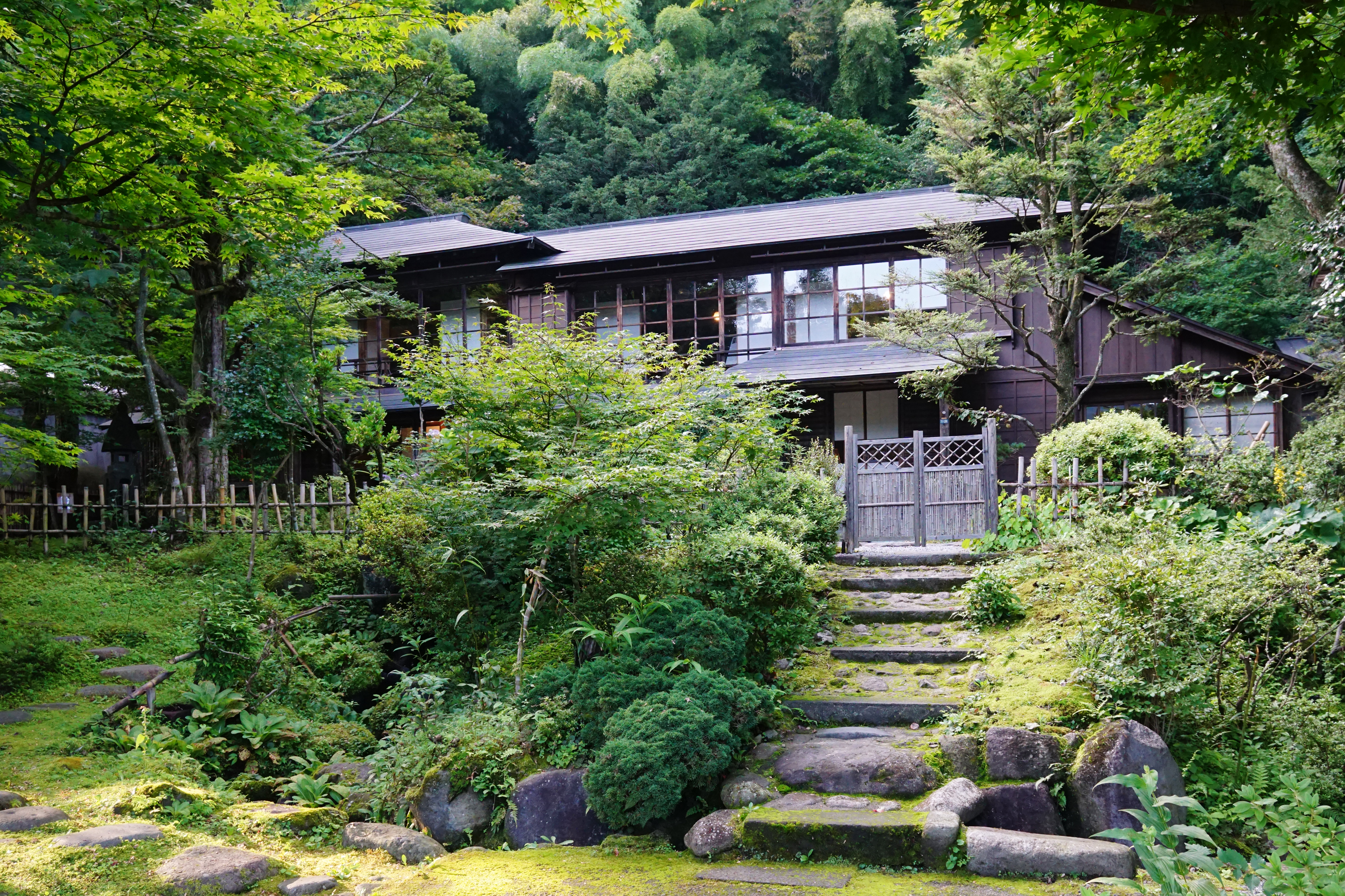 Kanaya_Hotel_History_House in Nikko, Tochigi prefecture, Japan